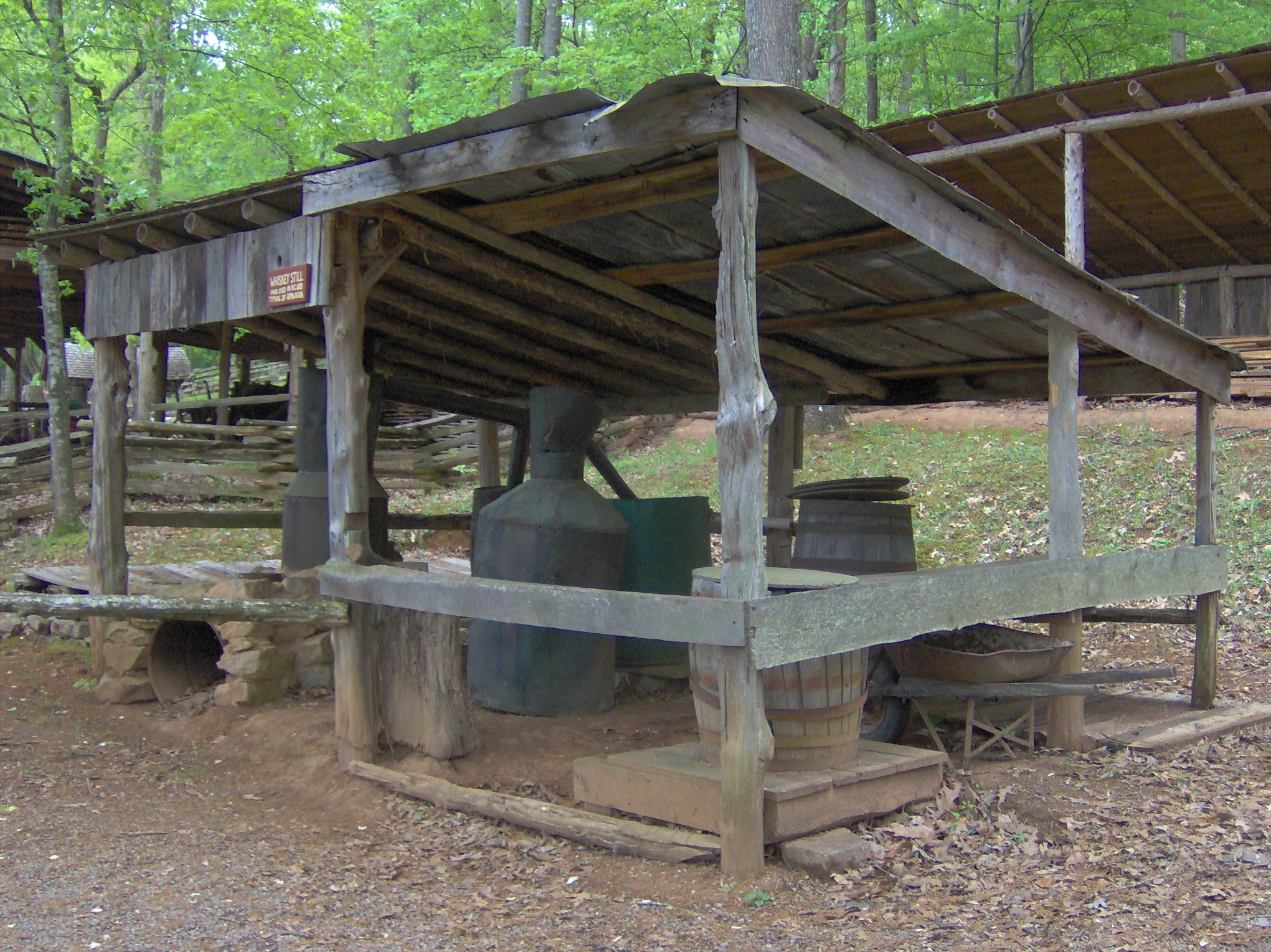 Whiskey still at the Museum of Appalachia in Norris, Tennessee, USA. The still was moved to the museum in the 1990s and was set up at the present site by famed moonshiner Marvin "Popcorn" Sutton (1946-2009), who provided a few of the components.